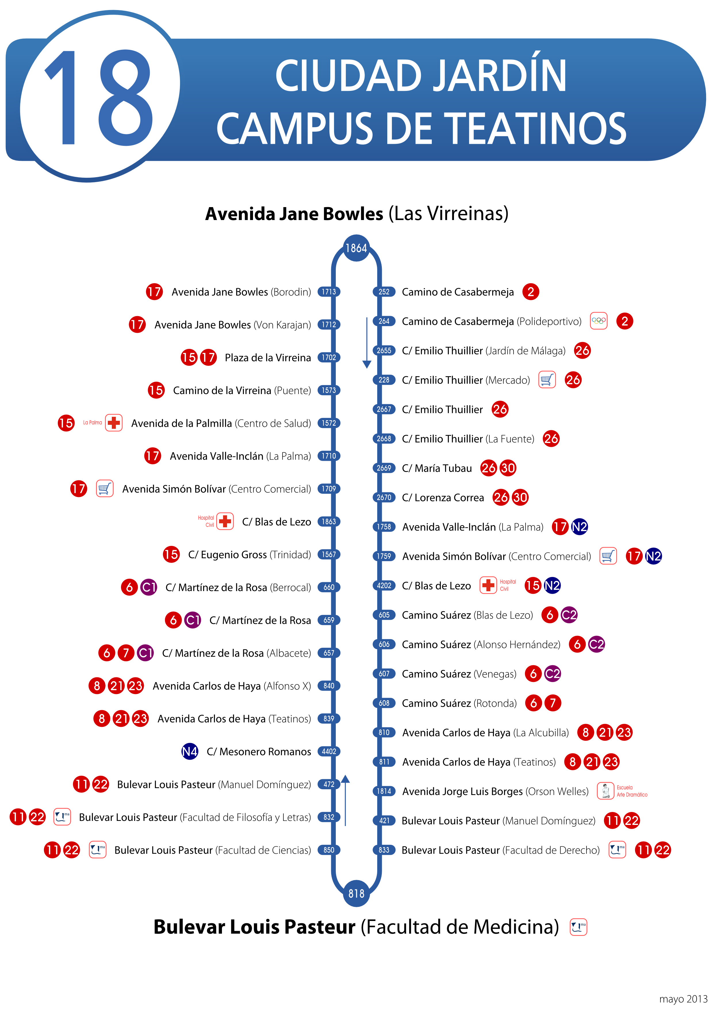 18th line's route of the EMT Málaga.